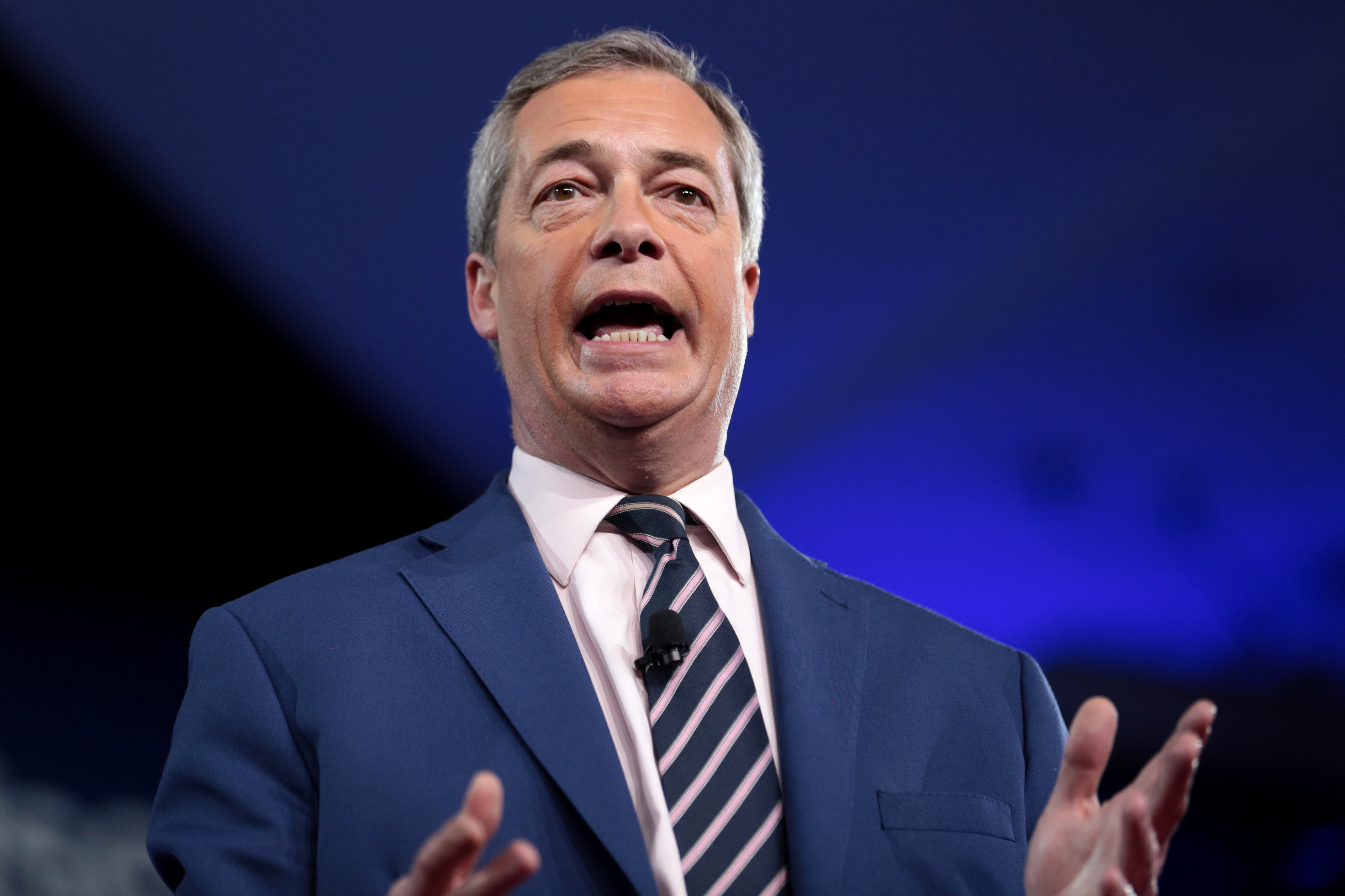 Member of the European Parliament Nigel Farage speaking at the 2017 Conservative Political Action Conference (CPAC) in National Harbor, Maryland.